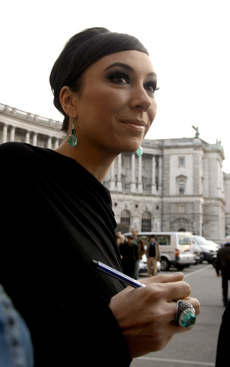 Ursula Strauss at the Romy TV awards (Hofburg Imperial Palace in Vienna)